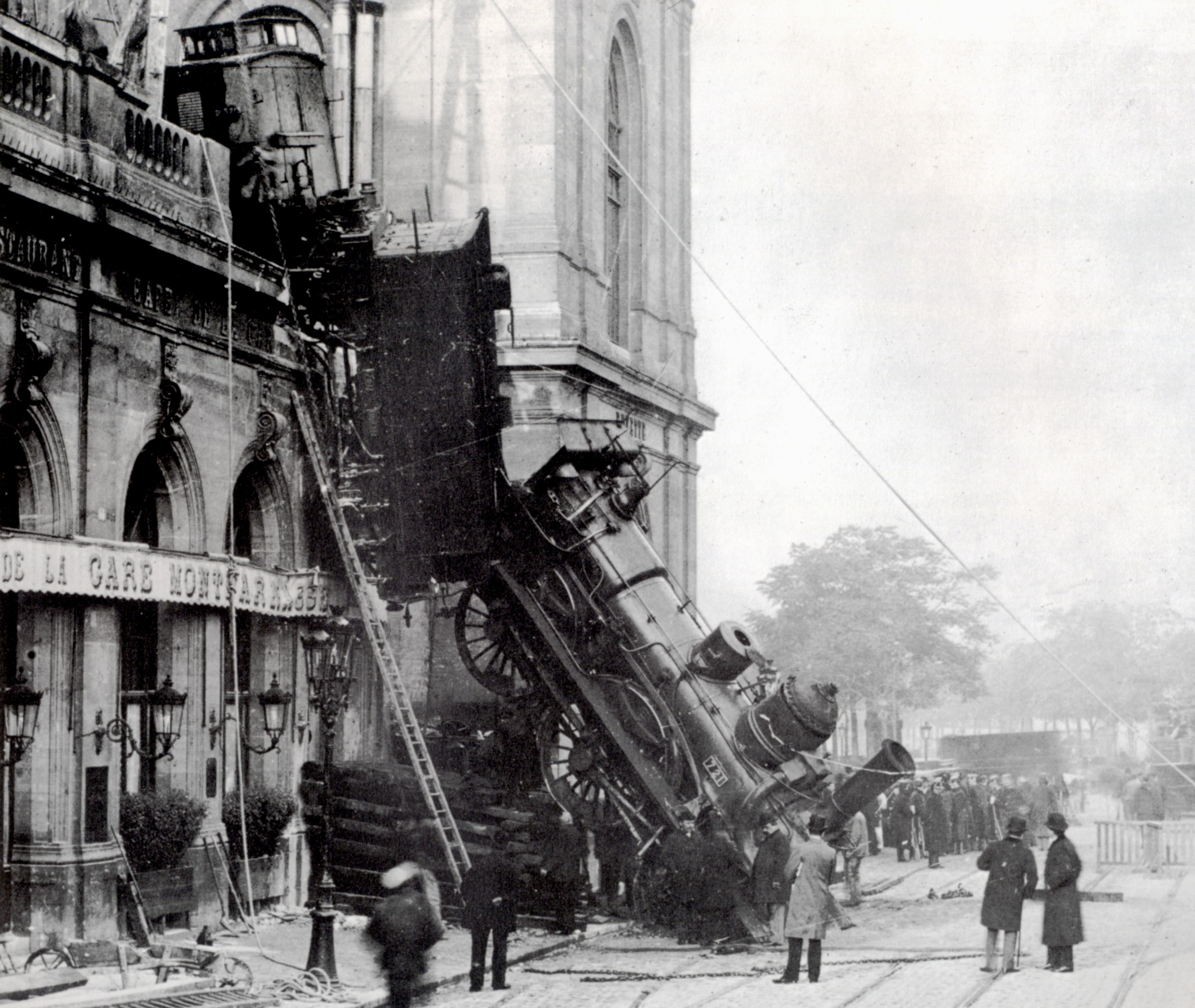 Train wreck at Montparnasse, Paris, France